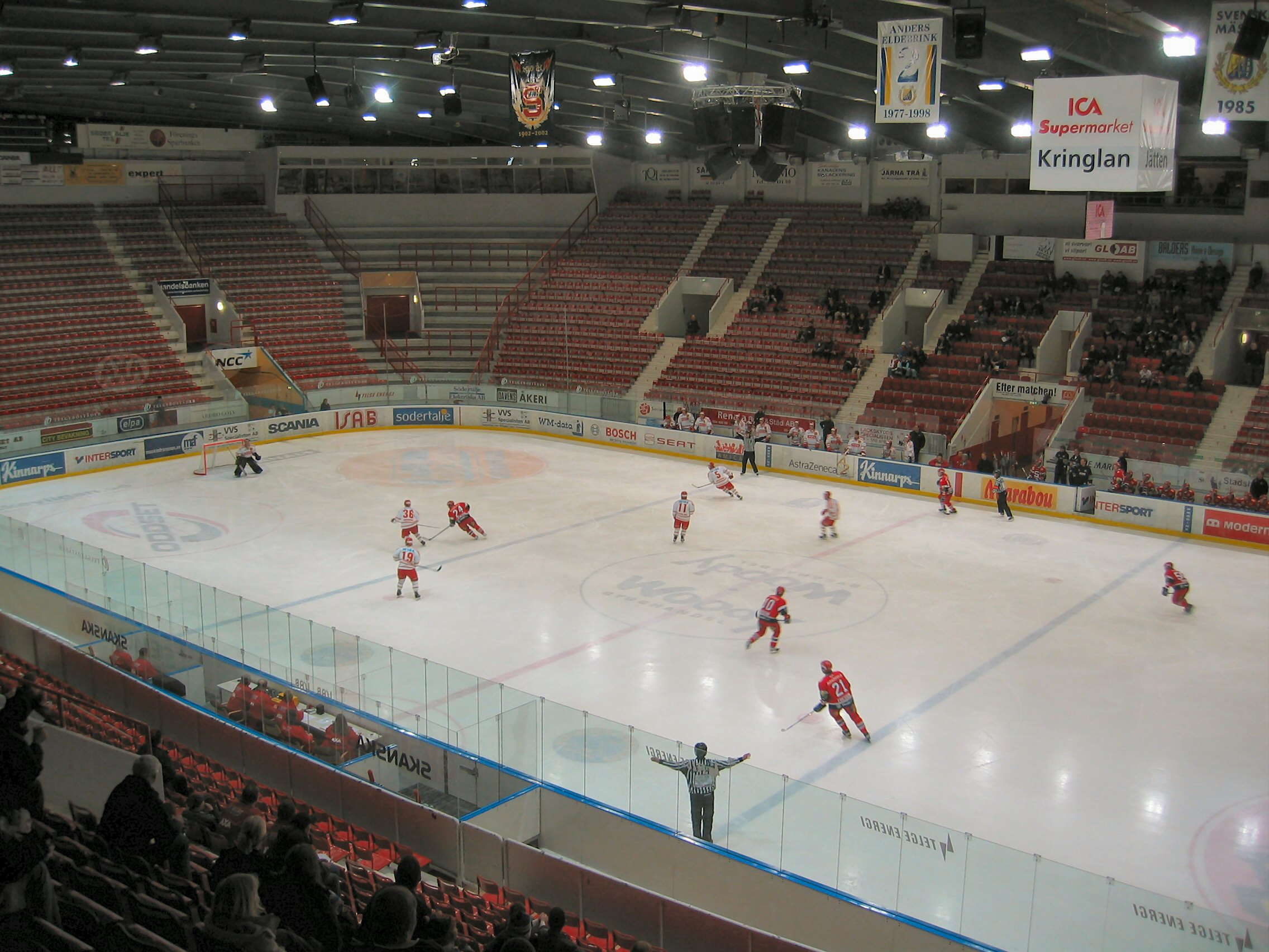 Scaniarinken pre 2005 rebuild.